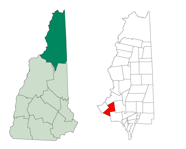 Map of a municipality in Coos County, New Hampshire